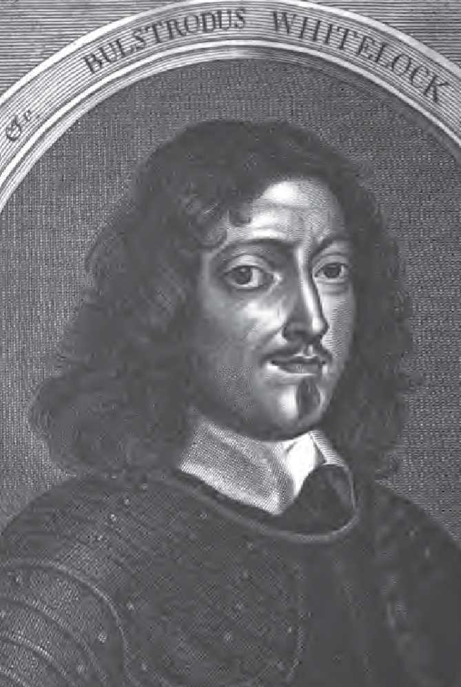 Bulstrodus Whitelocke